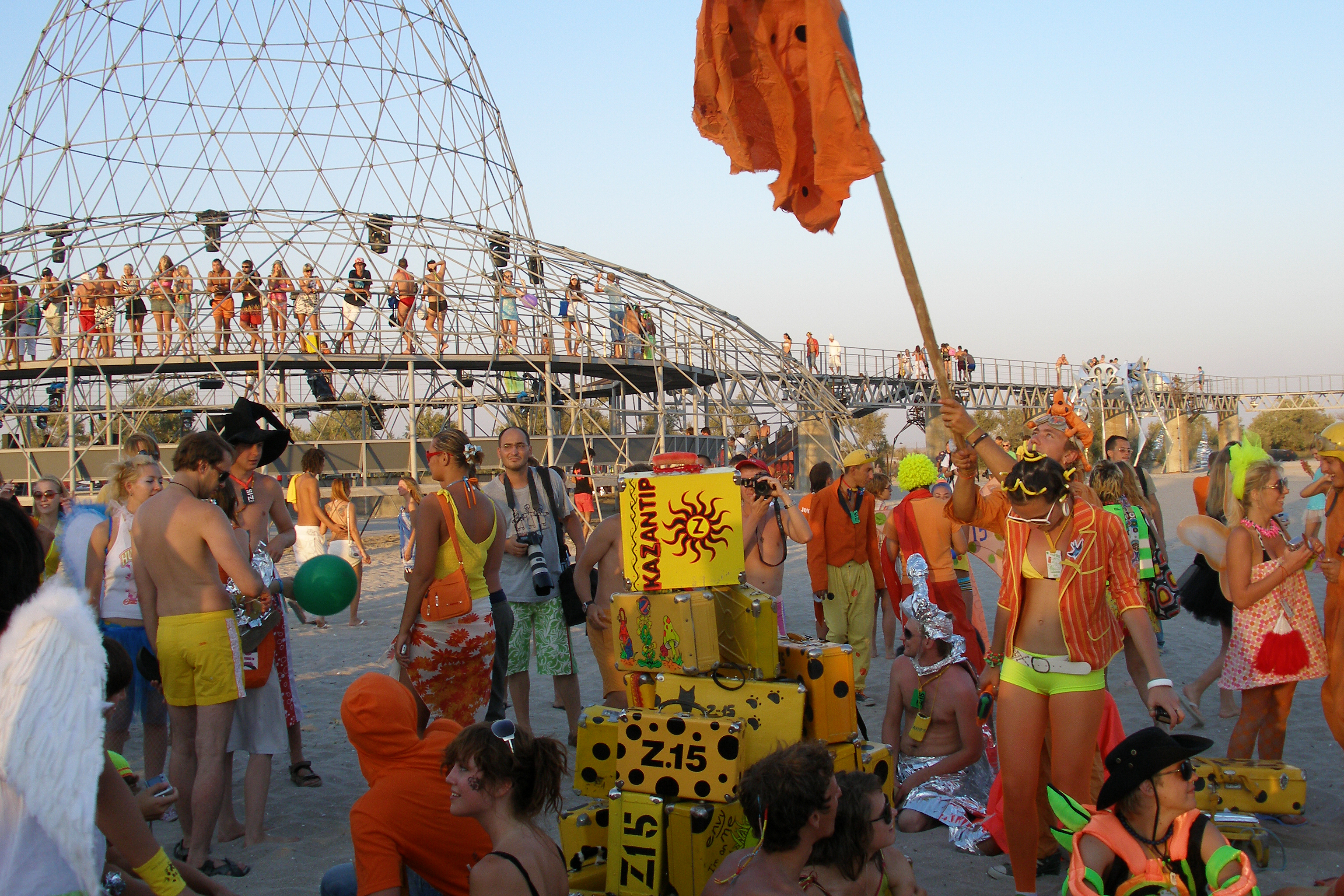 People at the KaZantip festival in 2007.